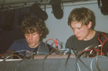 German experimental electronic music band Mouse on Mars, live in 2001 in Mannheim/Germany